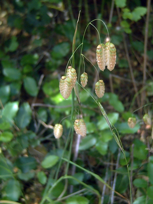 A own work release by Javier martin, donated to Wikipedia. Species Briza maxima Familia Poaceae Briza maxima, Pinos de la térmica, Puertollano Spain. 27 April 2006. Drżączka większa